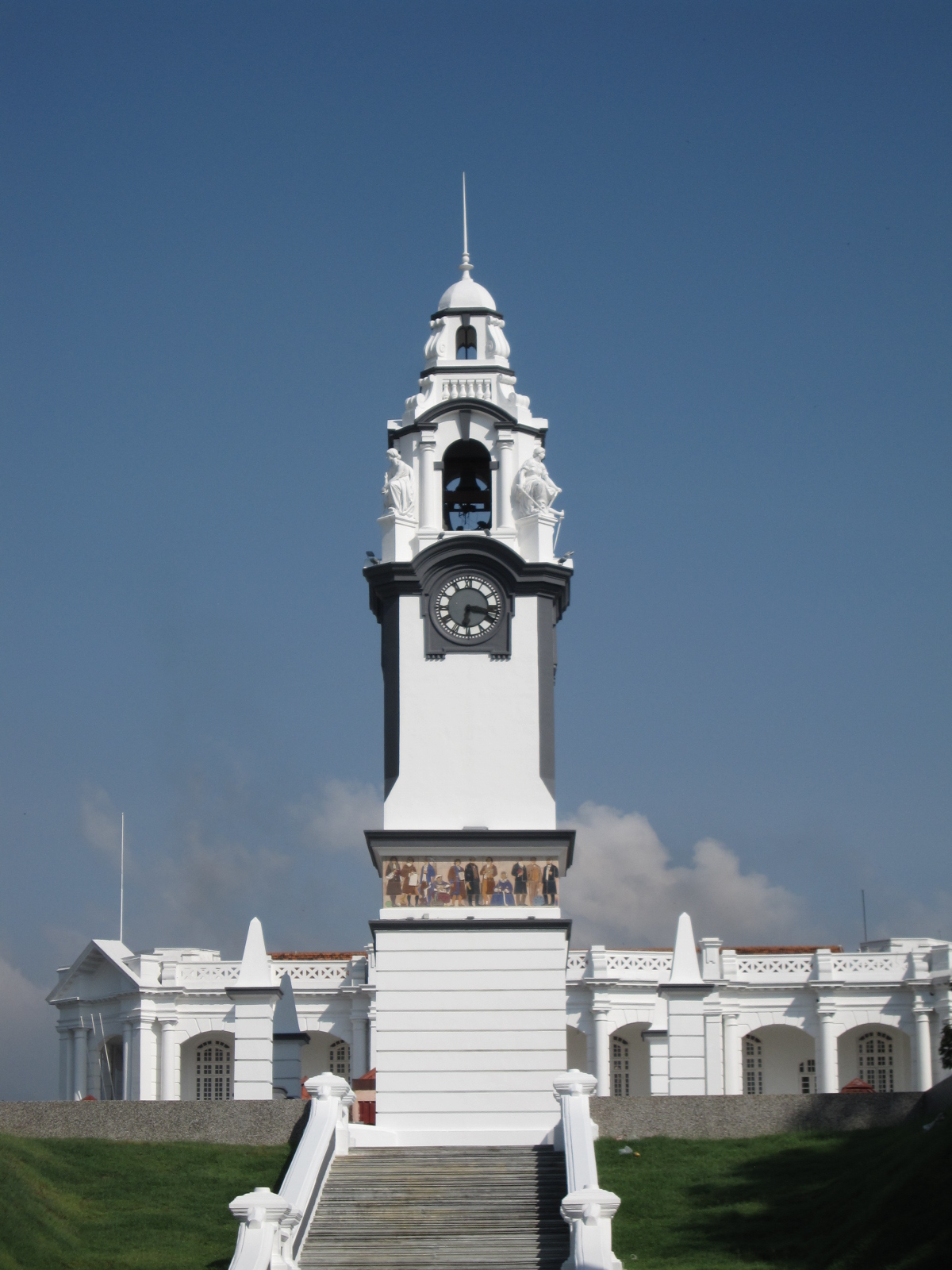 Birch Memorial Clocktower. Ipoh's Clocktower dedicated to James W.W. Birch, Ipoh.